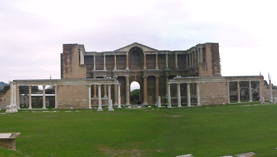 The ceremonial court and facade of the bath-gymnasium complex at the archaeological site of Sardis. Located near present-day Sart in the Manisa Province, western Anatolia, Turkey. Dated to 211 - 212 AD.